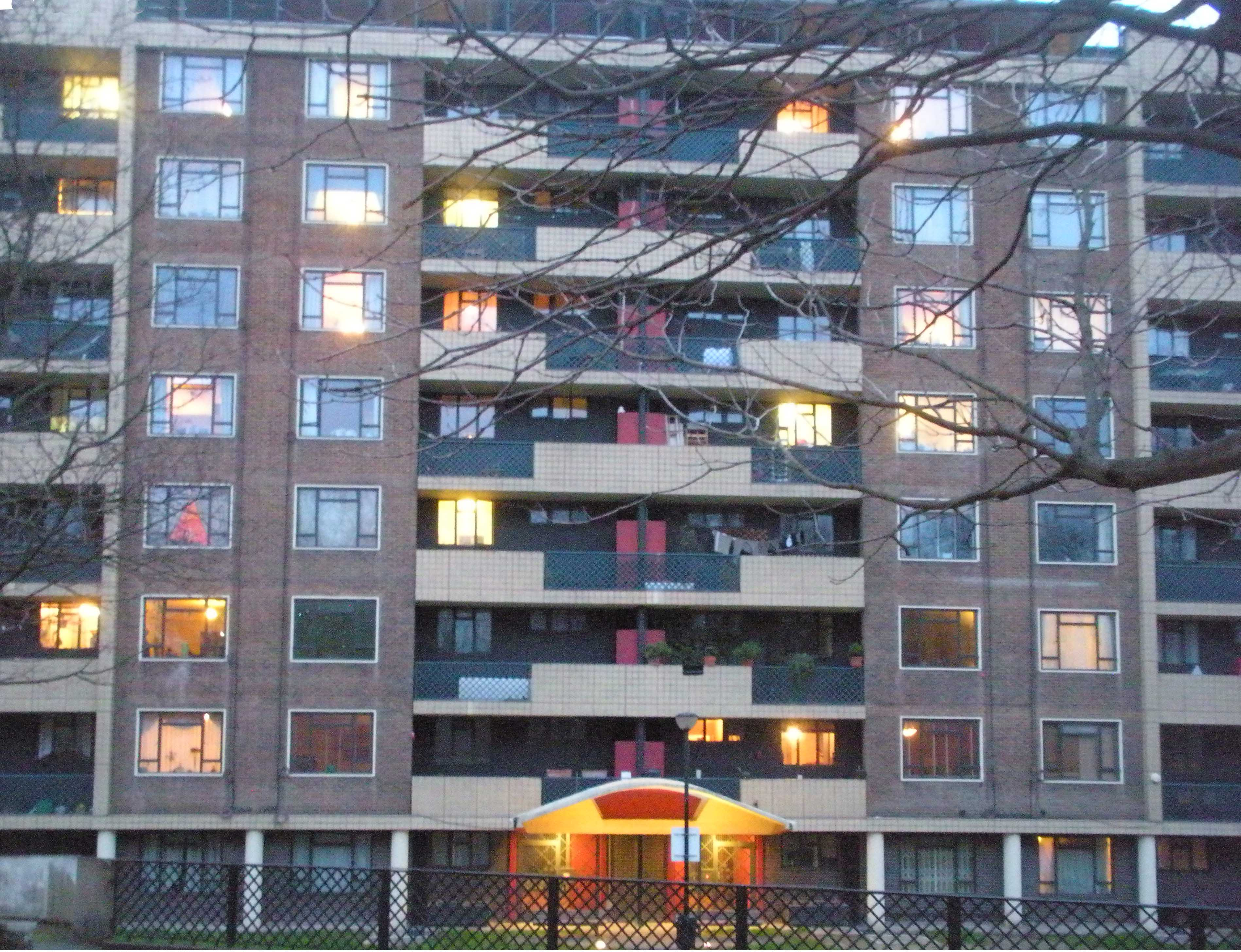 pattern of the balconies alternates from floor to floor; parabolic west porch at ground level